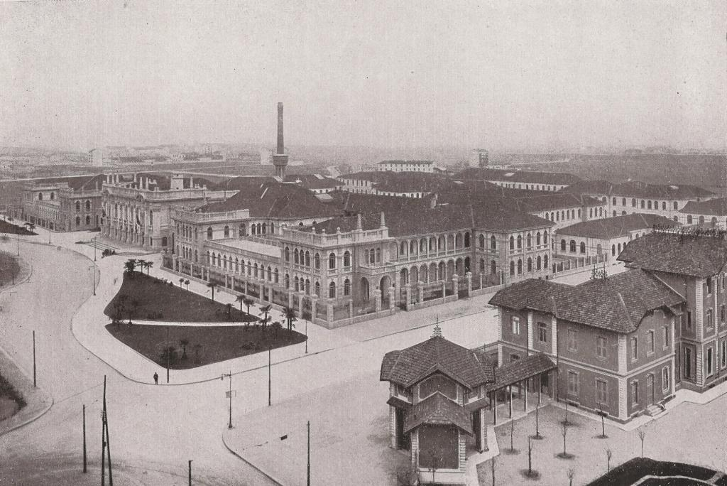 Città Studi, Milan, Italy, 1930